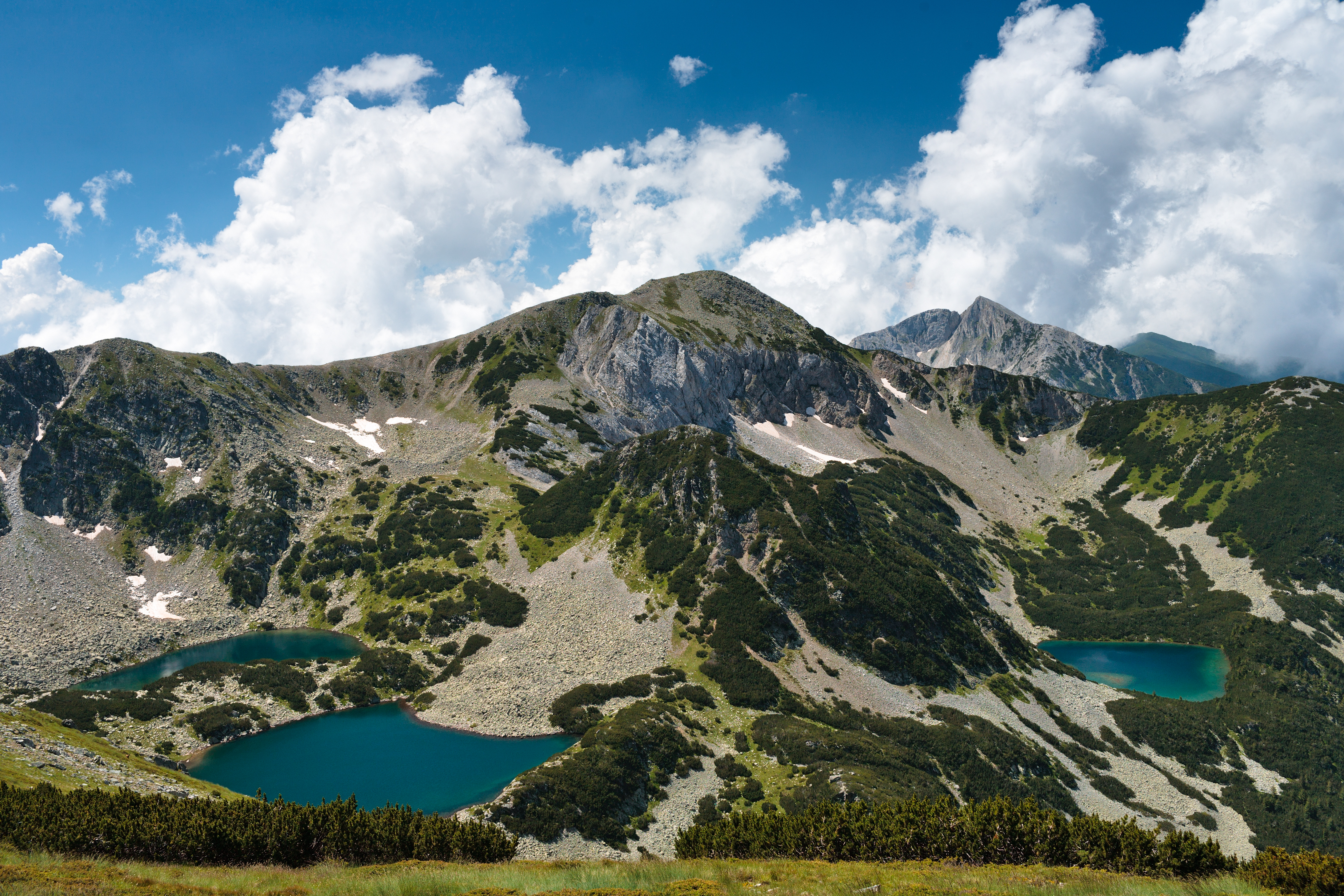 Gergiyski lakes, Pirin National Park, Bulgaria. Depicted peaks from left to right: Gergiytsa, Sinanitsa and Konski Kladenets (in the fog)